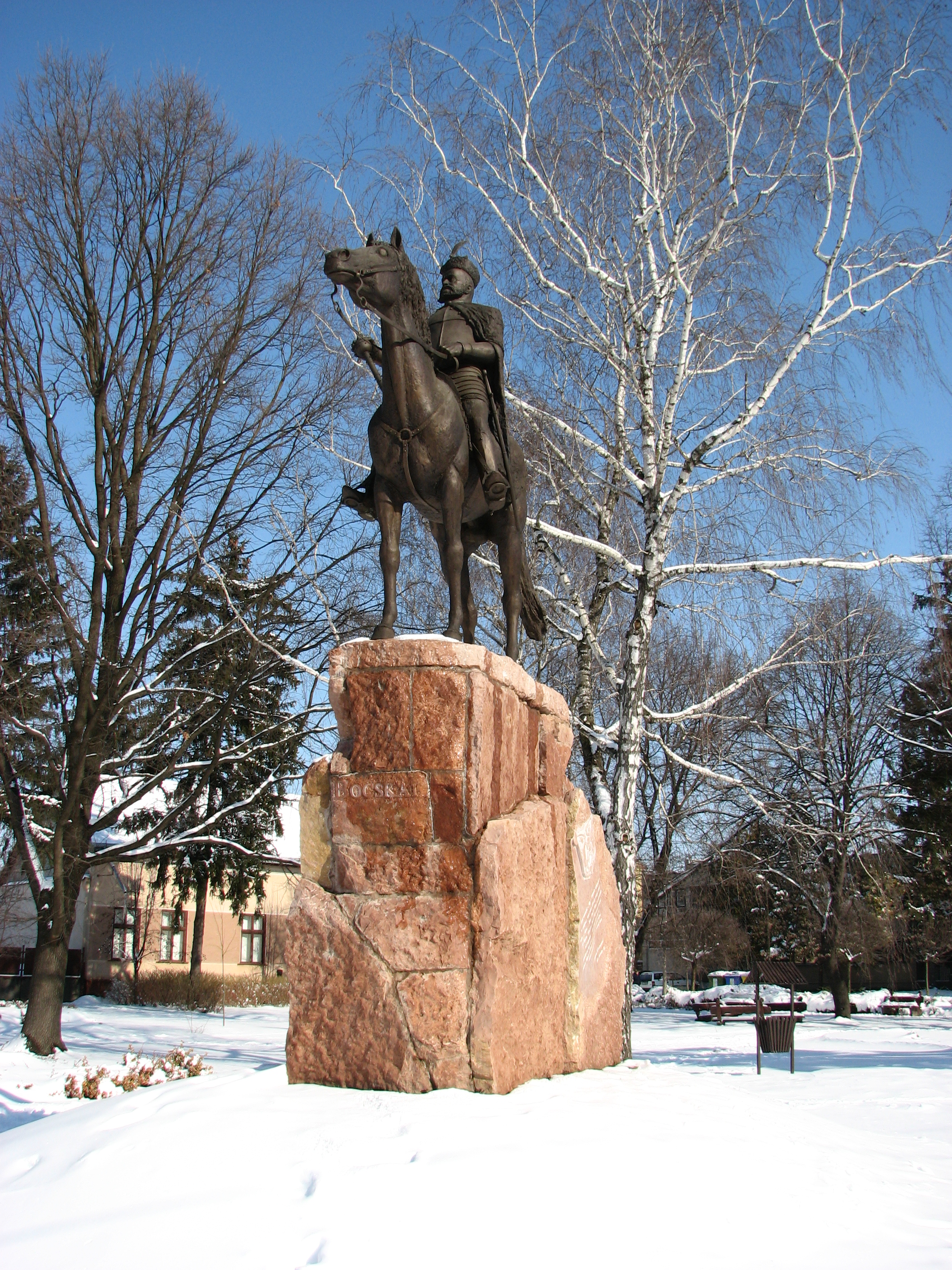 The statue of István Bocskai in Hajdúdorog, Hungary.